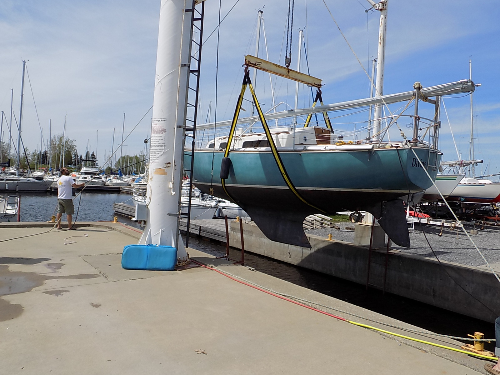 A Sabre 28 sailboat named Divine Wind.